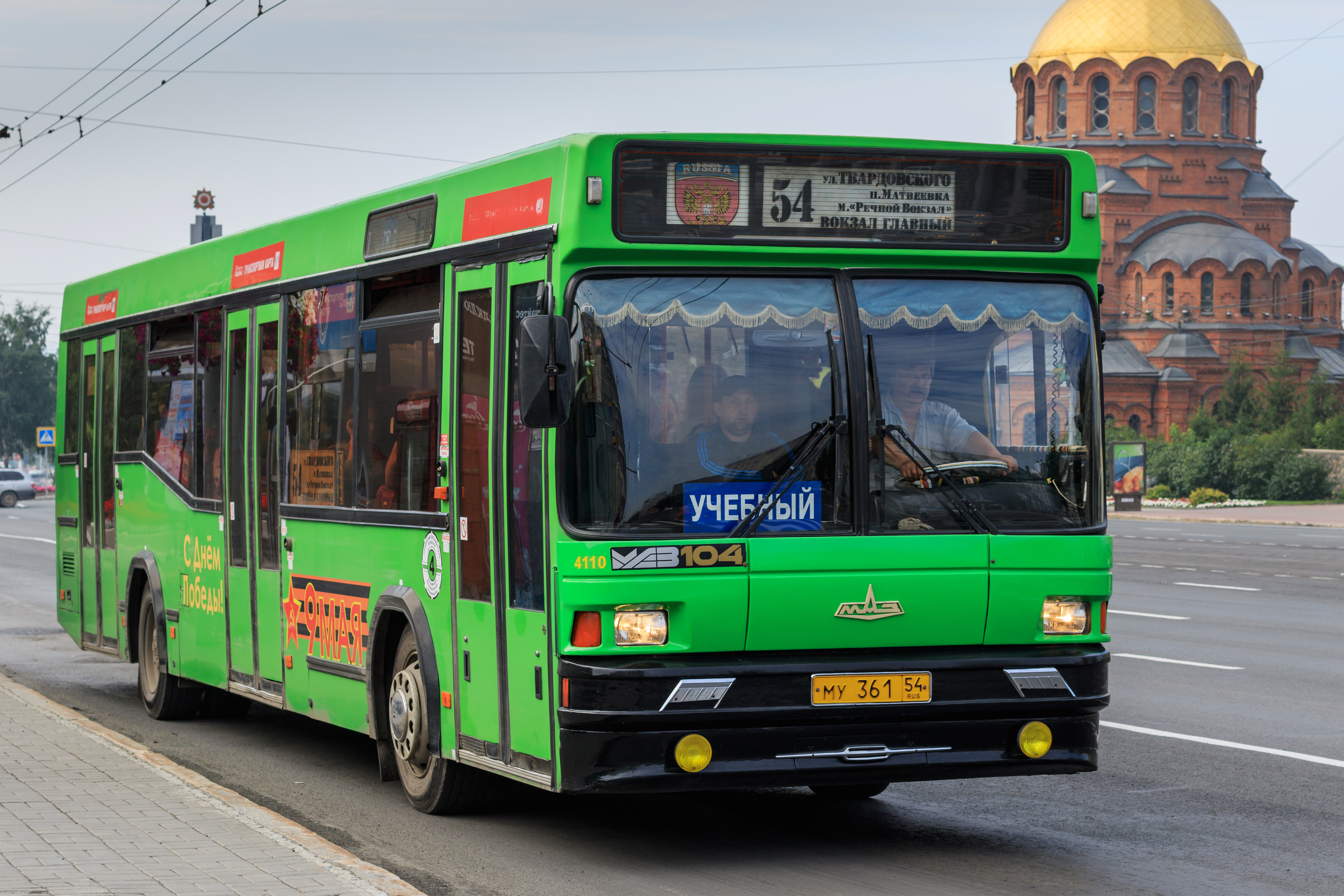 MAZ-104 bus at Krasny Prospekt in Novosibirsk, Russia